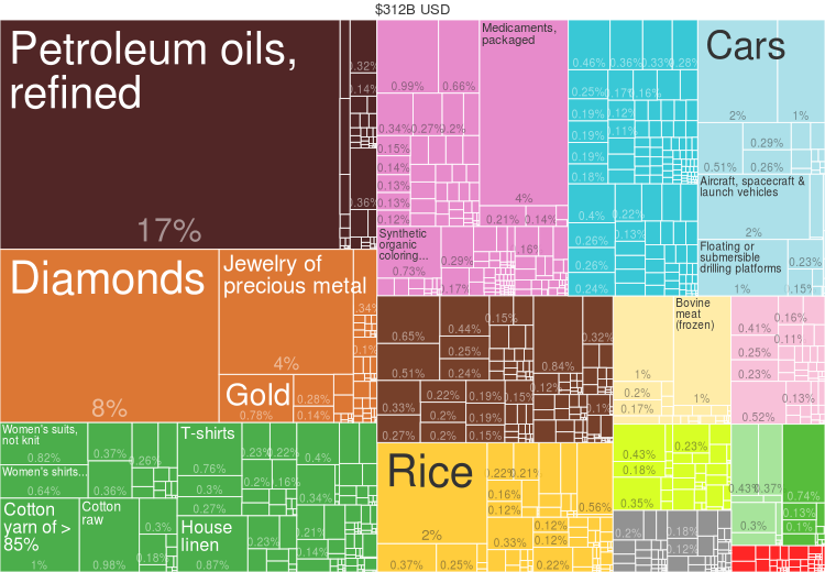 2014 India Products Export Treemap